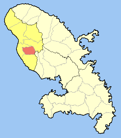 Location of Le Morne-Vert within Martinique